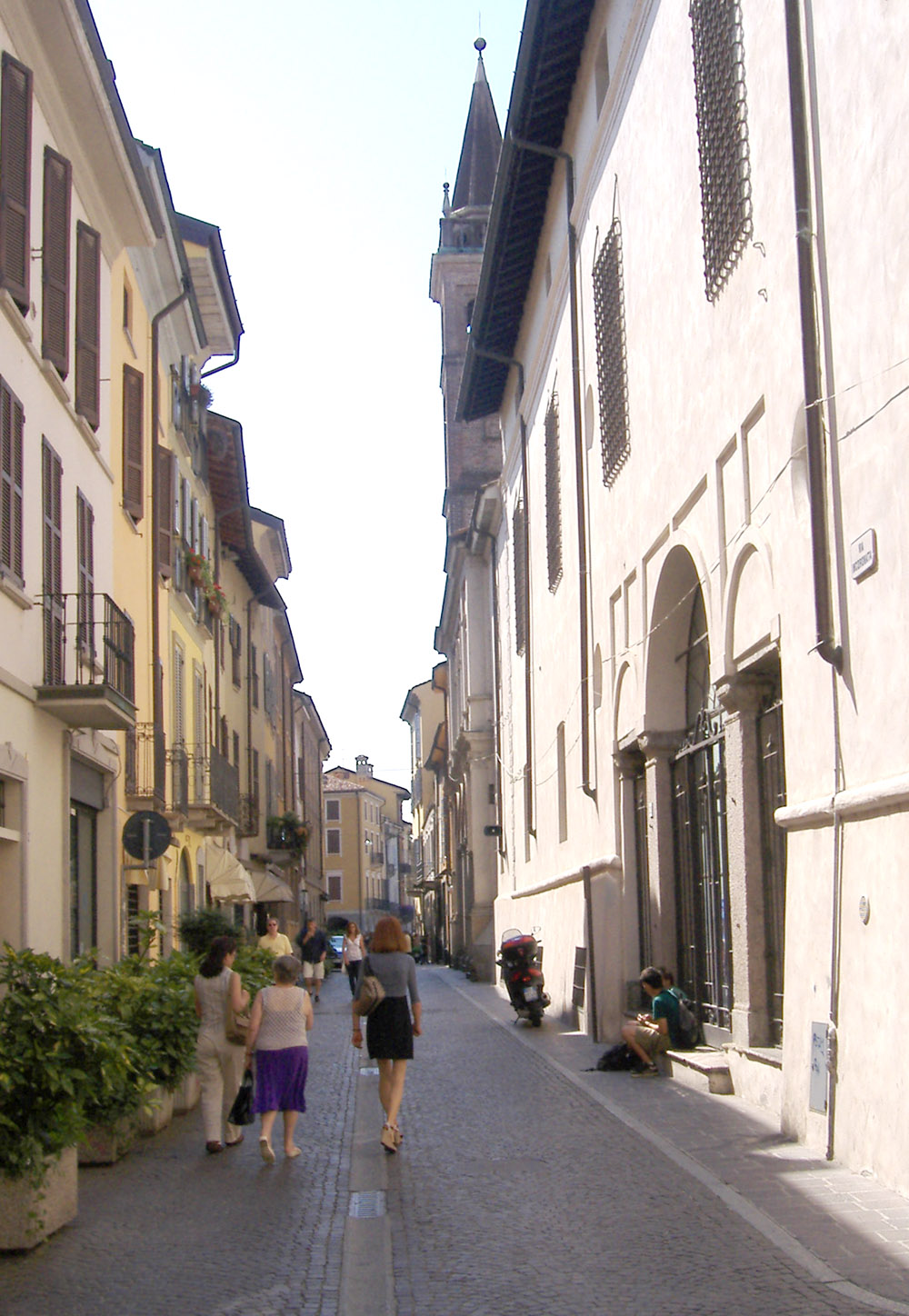 Lodi, Italy, Via Incoronata